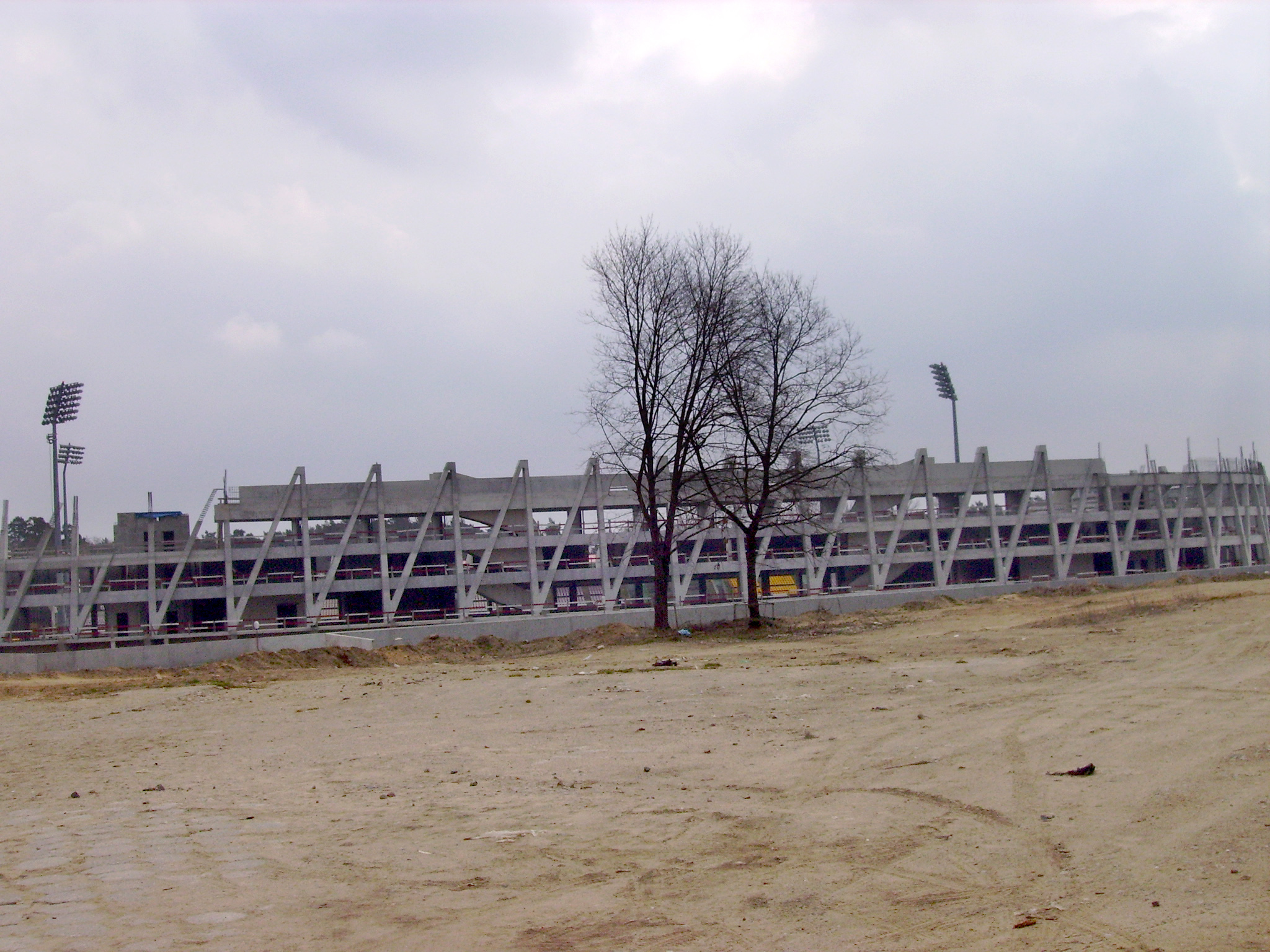 Białystok City Stadium (2012).